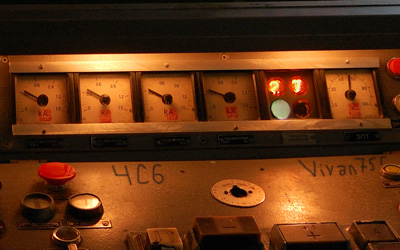 Panel of electric loco ChS6 (Skoda 50E) while traction motors are online